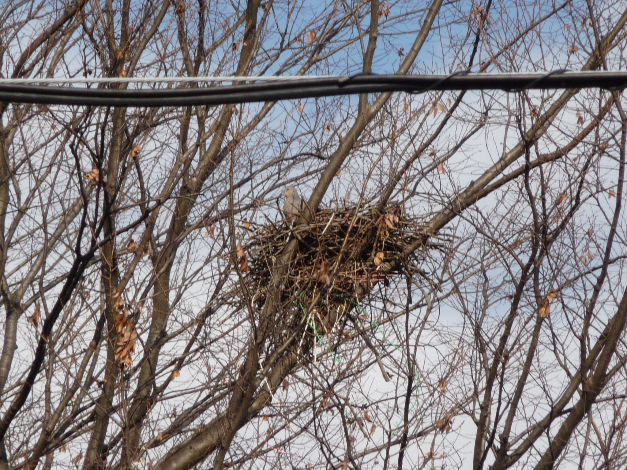 Nest of Oriental Turtle Dove on zelkova serrata, deciduous tree, exposed after leaf fall.(Chiba Japan, pictured in Dec. 2008)